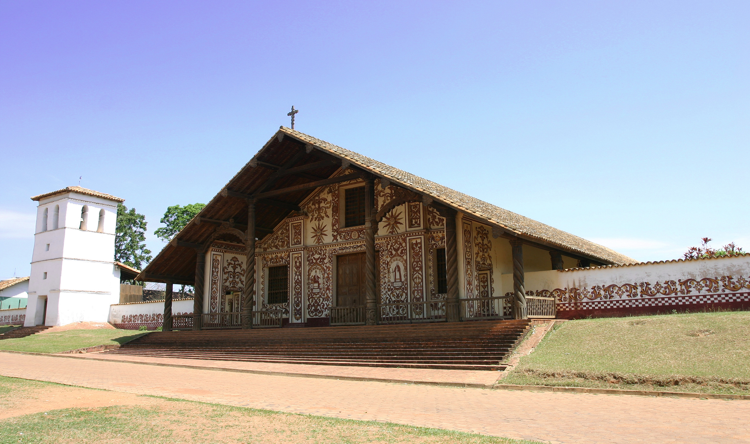 Mission complex, San Miguel de Velasco, Bolivia